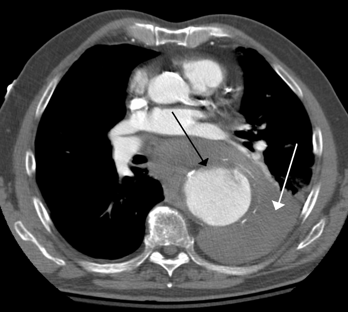 CT scan of a ruptured thoracic aortic aneurysm. Black arrow is the aorta. White arrow is blood in the thorax